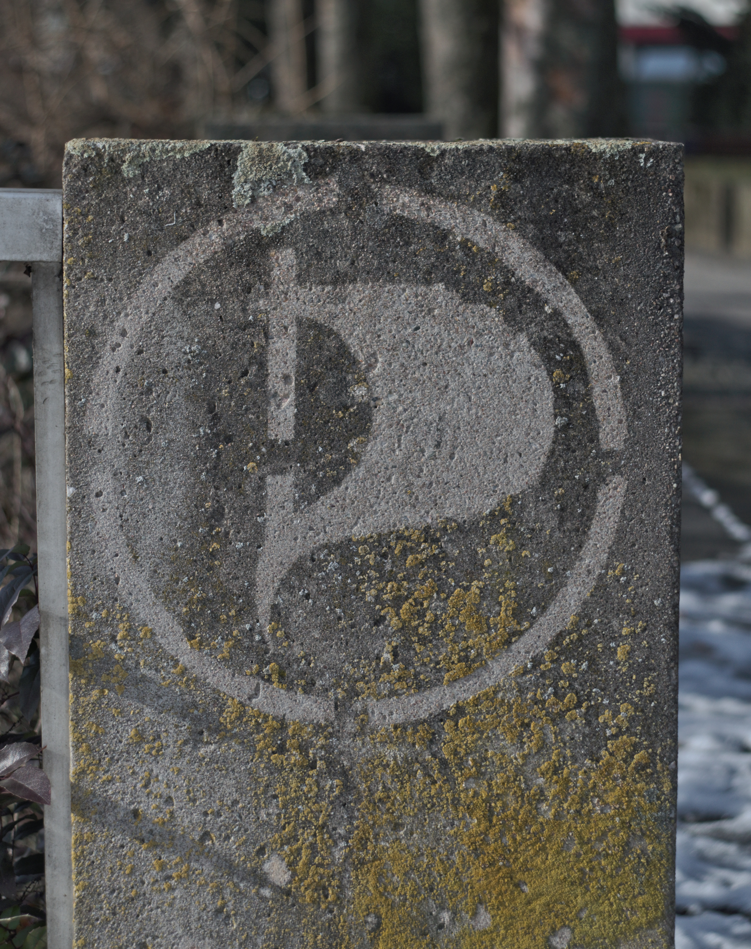 Reverse graffiti showing the logo of the Piratenpartei in Bayreuth, Germany